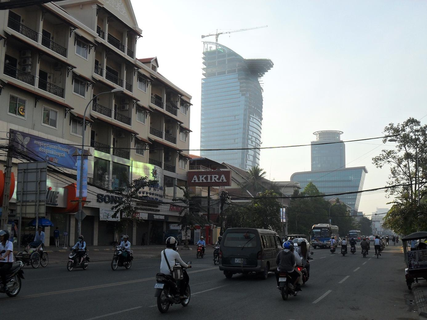 Monivong Blvd, Phnom Penh, Cambodia